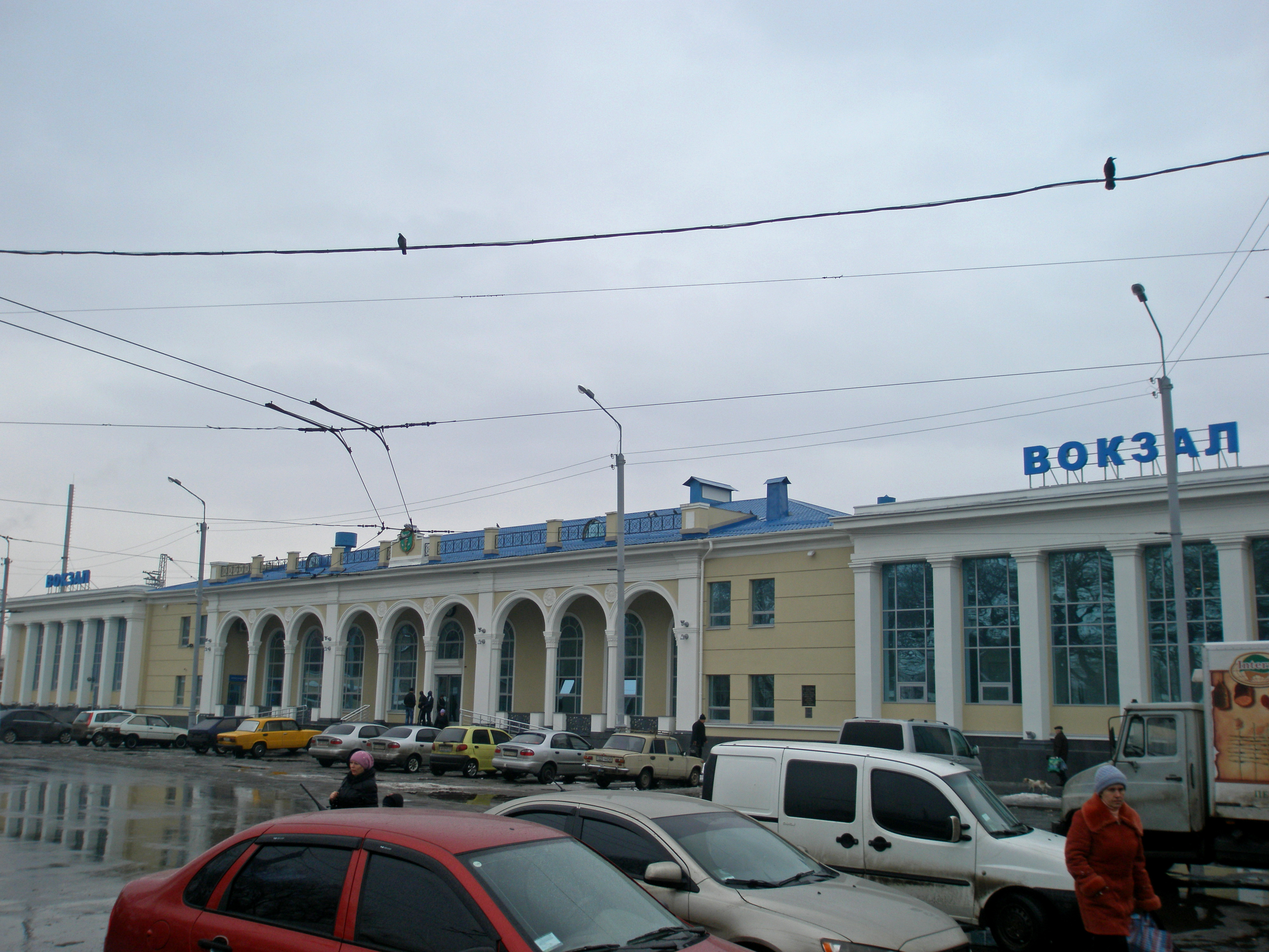 Sloviansk Railway Station in Sloviansk, Donetsk Oblast, Ukraine